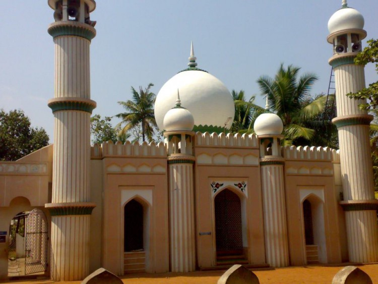 KOLLAKADAVU JUMA MASJID,KOLLAKADAVU,CHENGANNUR